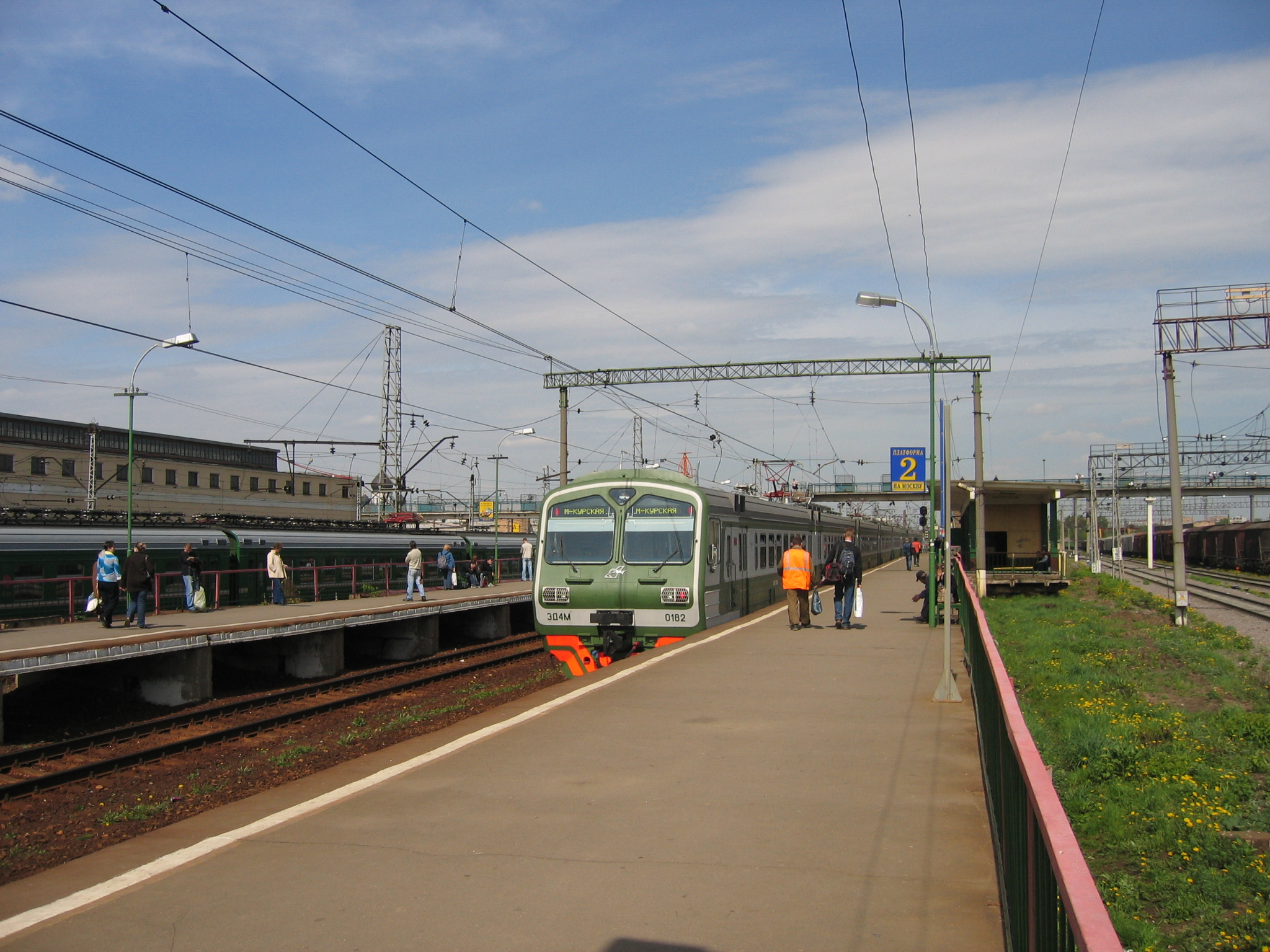 Train station Pererva, Moscow